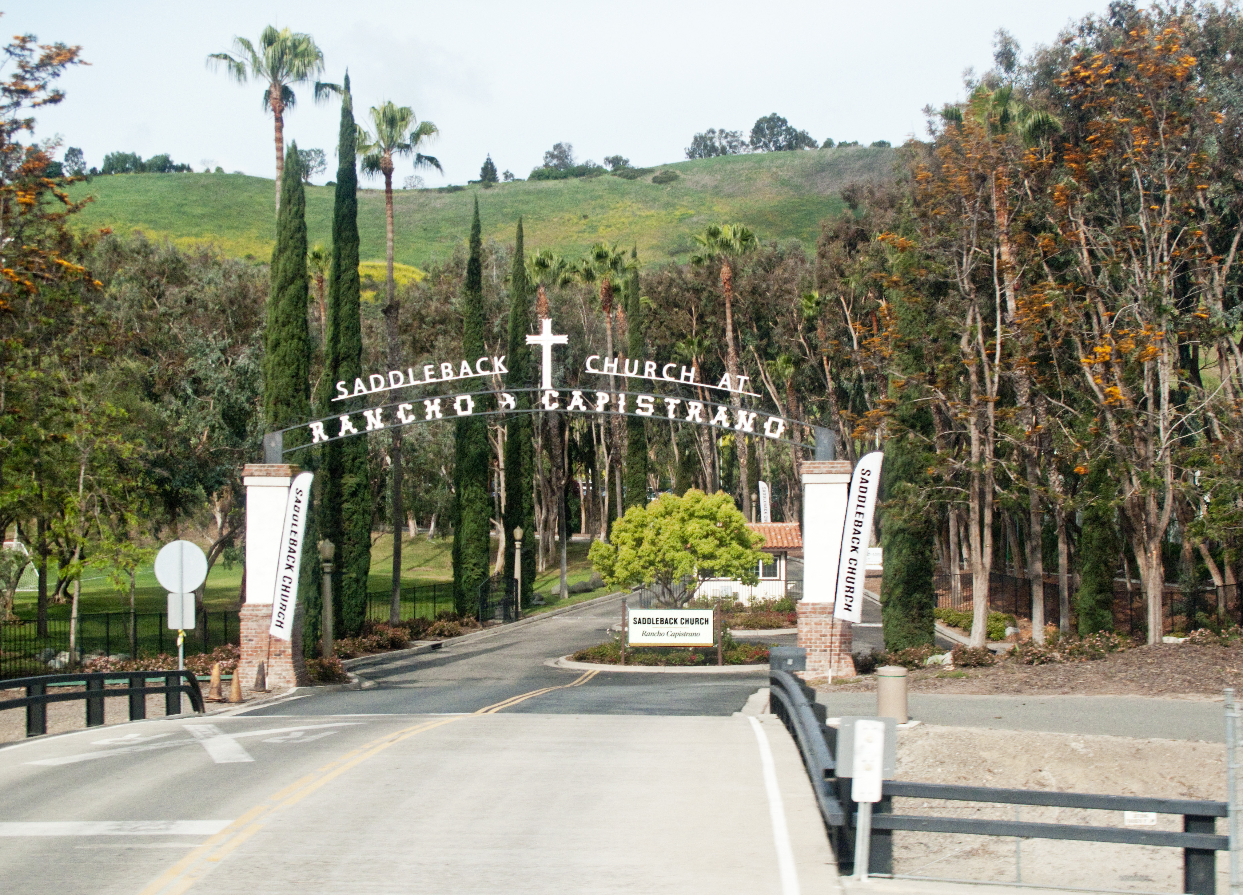 Gate at driveway leading to Saddleback Church, Rancho Capistrano branch, in San Juan Capistrano, California